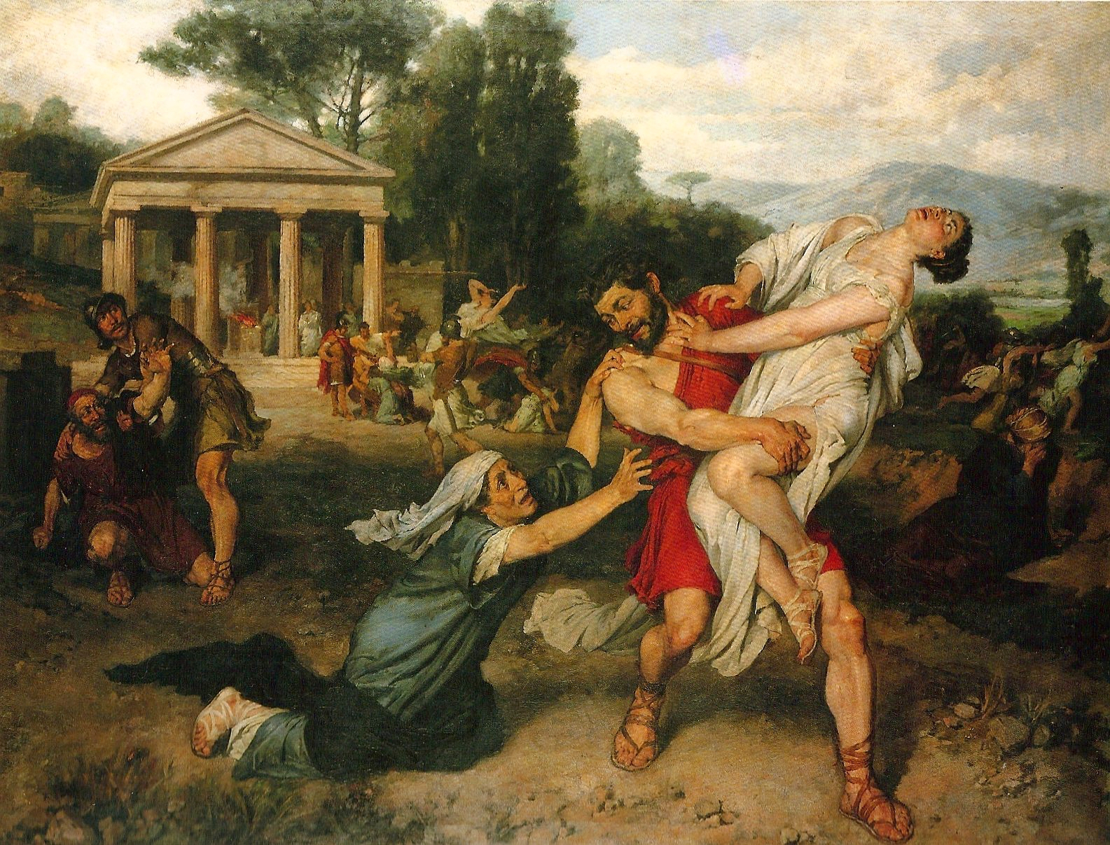 Made as part of the audition to receive a scholarship to study in Rome.